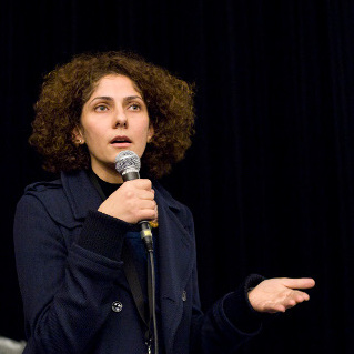 Maha Maamoun at transmediale.11 RESPONSE.ABILITY